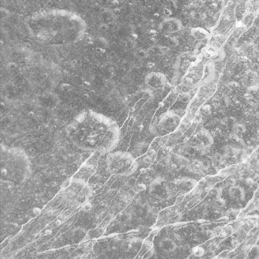 Dione's surface in detail (Saturn moon)